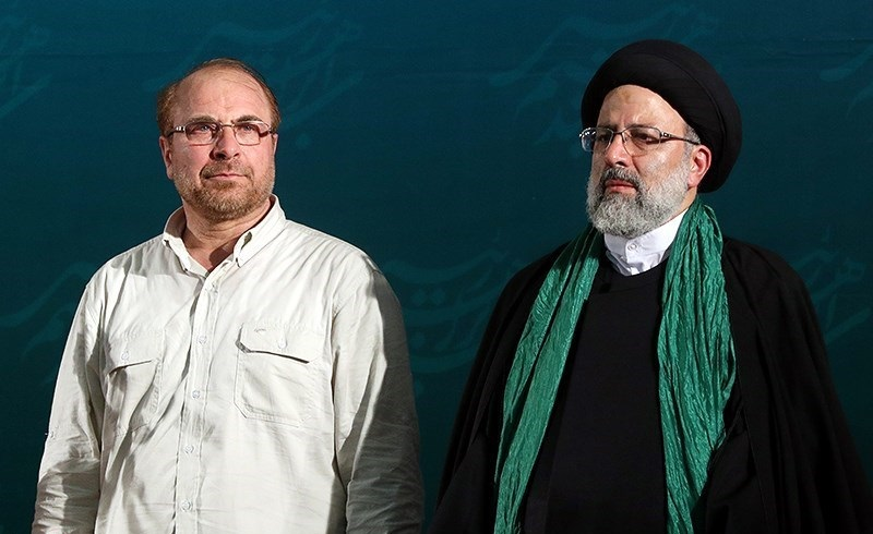 Presidential candidate Ebrahim Raisi and former Mohammad Bagher Ghalibaf at Tehran Mosalla